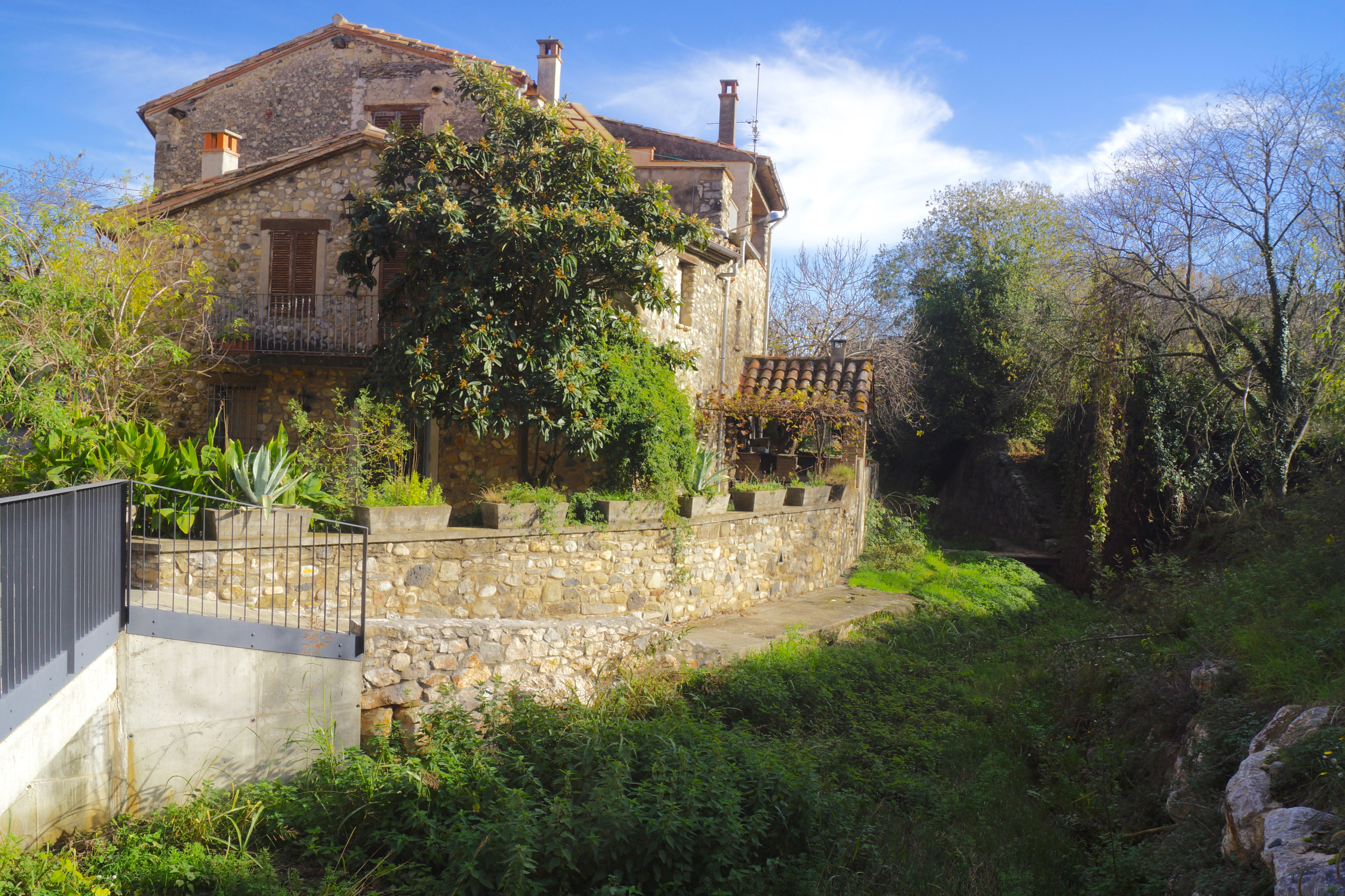 Argelaguer, Catalonia: The river Torrent del Vinyot